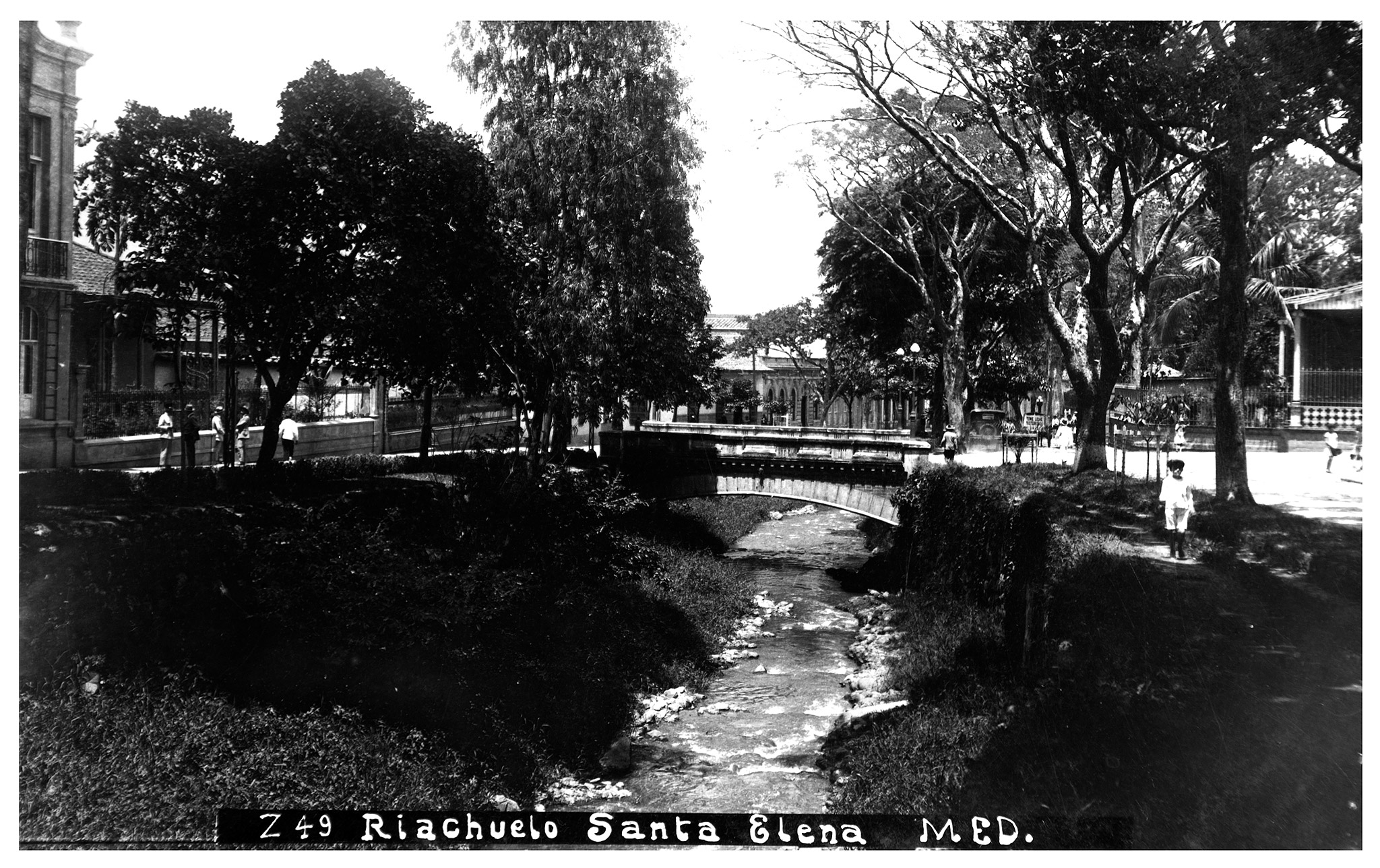 Riachuelo Santa Elena. Santa Elena (Medellín), 1915